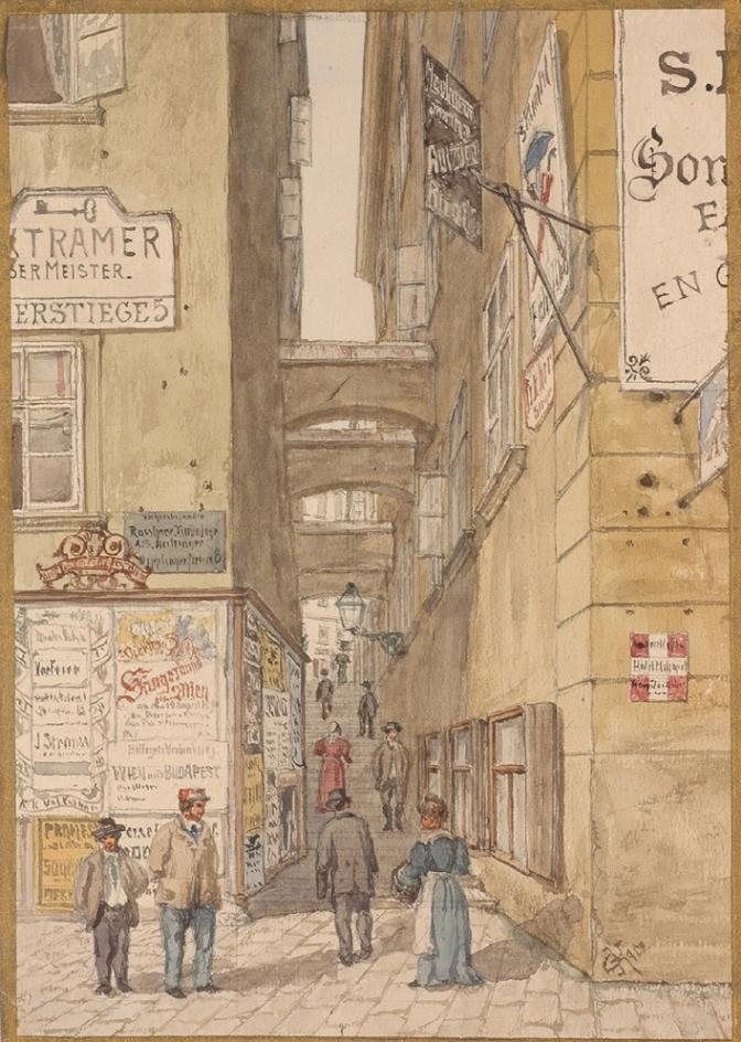 "Fischerstiege in the 1st district in Vienna" 1902, watercolor